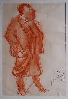 Caricature of Gösta Chatham by John Jon-And.